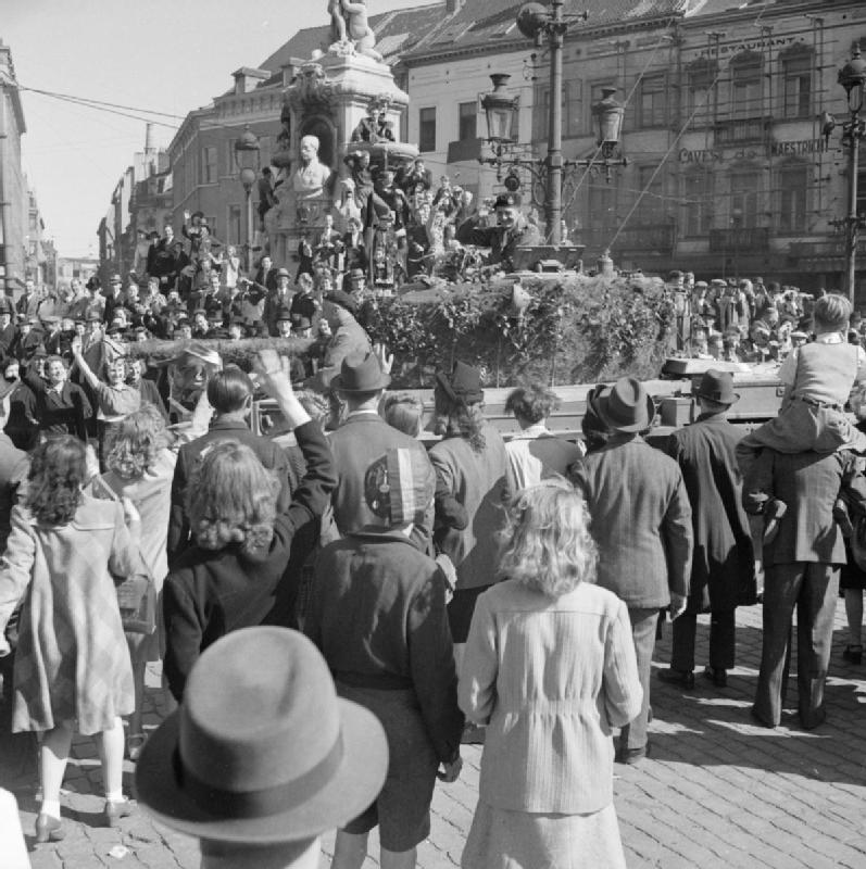 Scenes of jubilation as British troops liberate Brussels, 4 September 1944. Major General A H S Adair, GOC Guards Armoured Division, acknowledges the crowd from his Cromwell command tank.